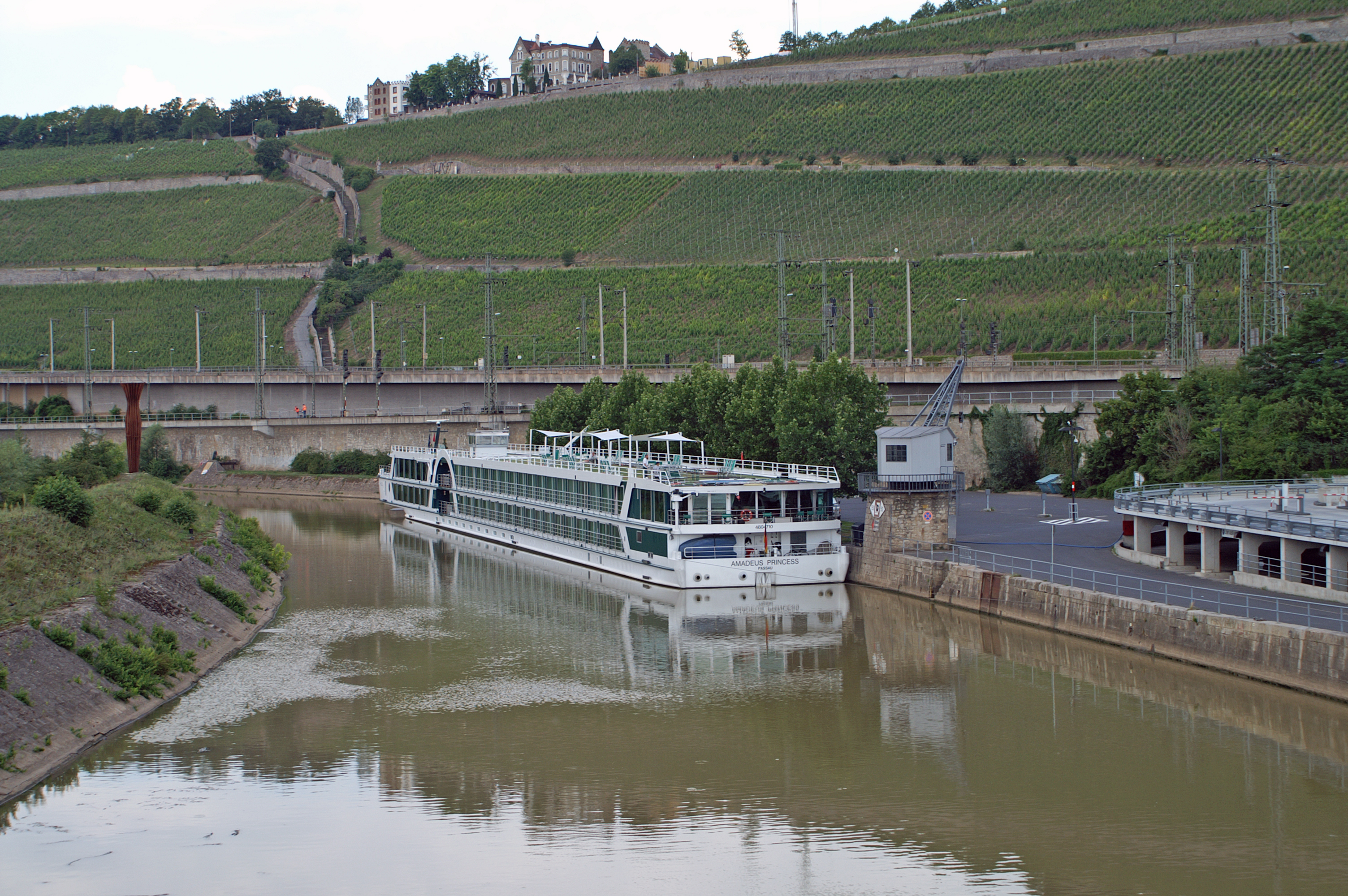 River cruise ship Amadeus Princess in Würzburg.